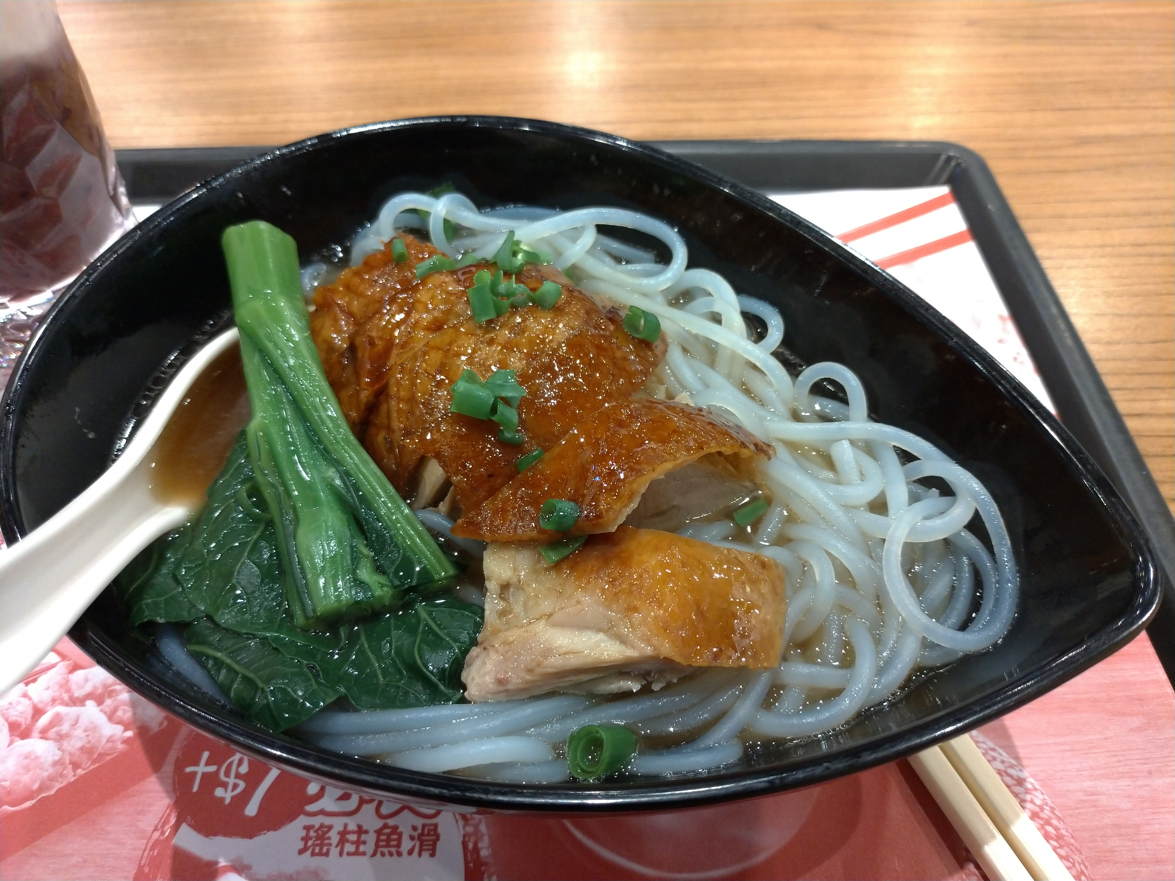 A bowl of roast duck with rice noodles at a fast food restaurant in HK.